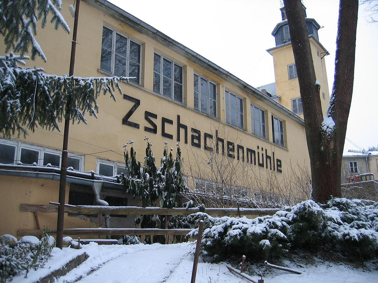 Gymnastics hall of the former Thuringian Fire Fighting School at Zschachenmühle